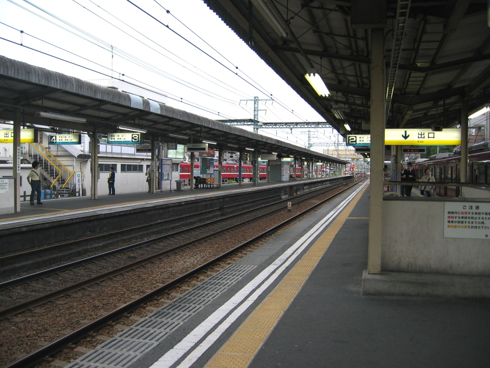 Keikyu Main Line, Kanagawa-Shinmachi Station Platform(Kanagawa, Japan)